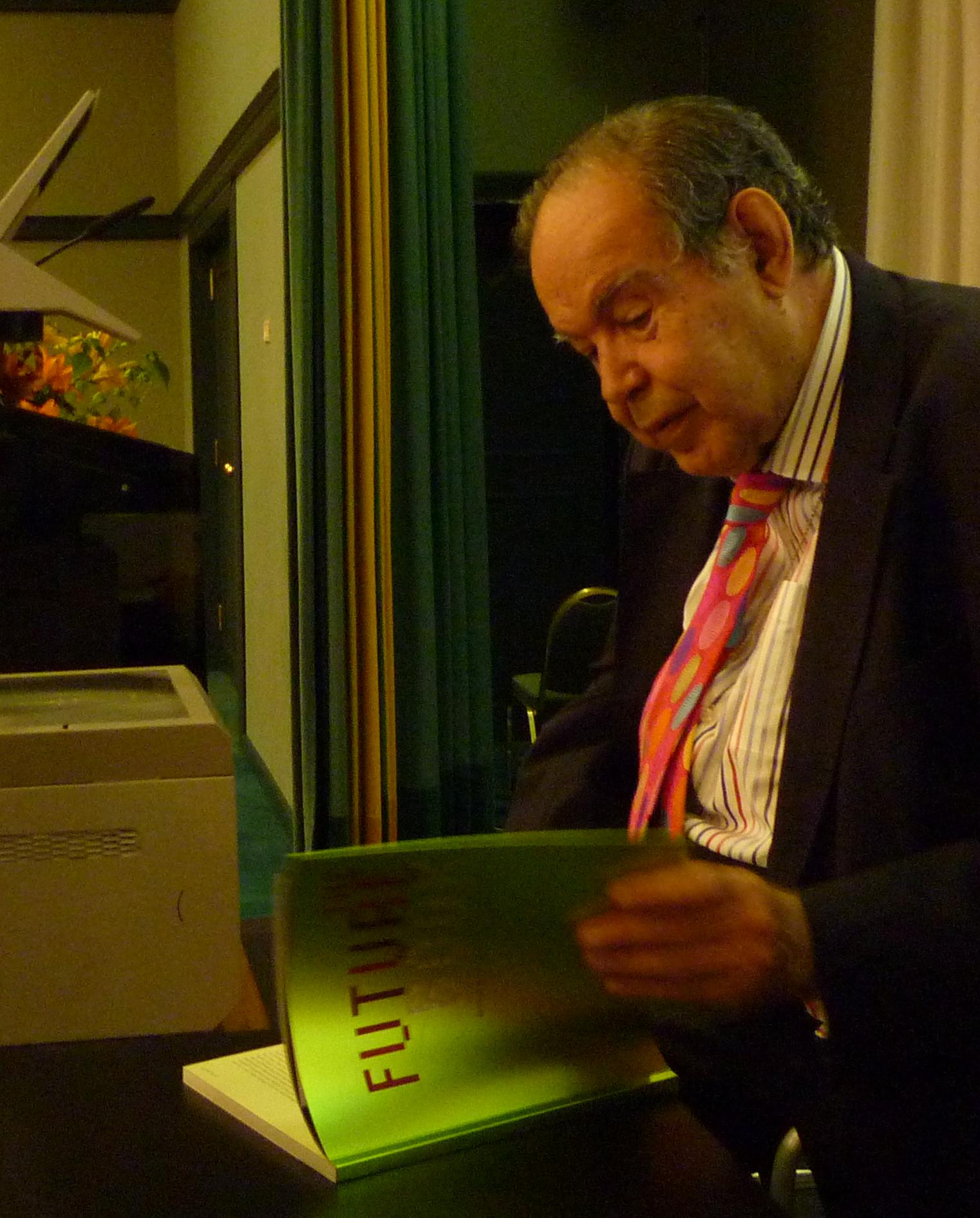 Metka speaks with Edward de Bono